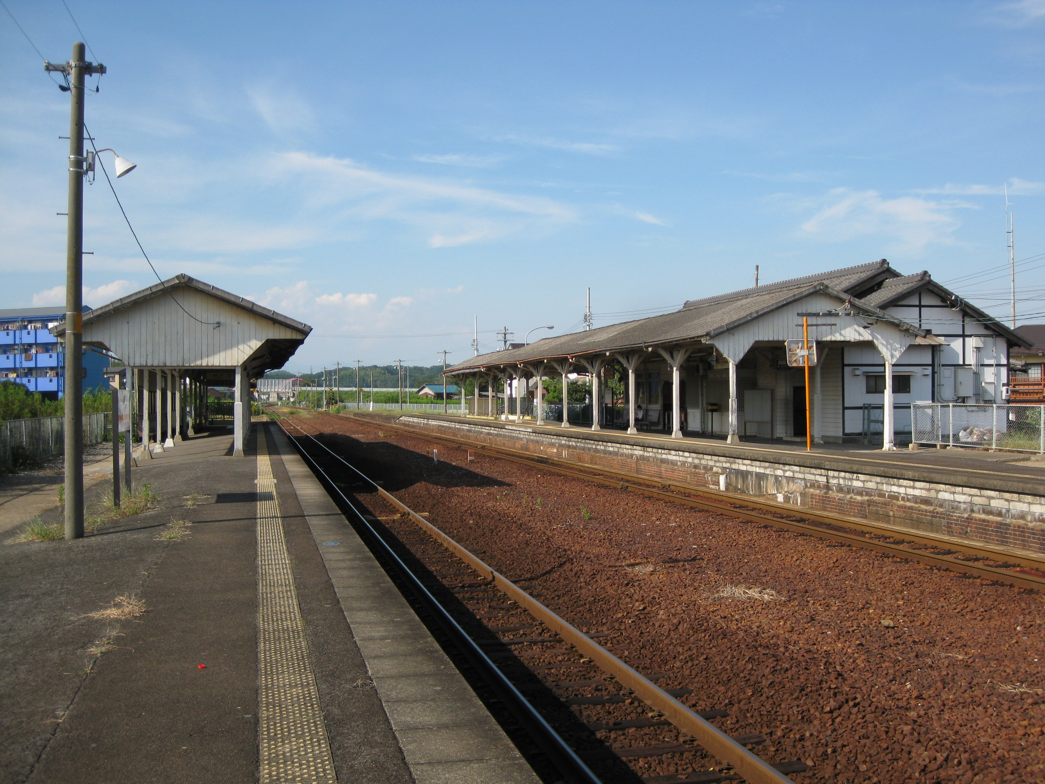 The platforms at Ishinden Station on the Kisei Main Line